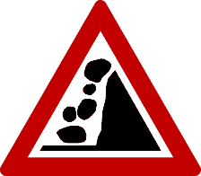 Diagram of road signs of Luxembourg